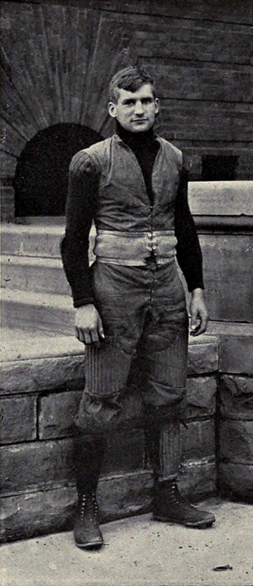 Photograph of Albert E. Herrnstein